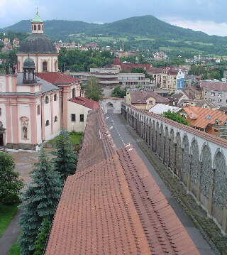 Děčín Castle's Long Ride, taken from the castle, 2004